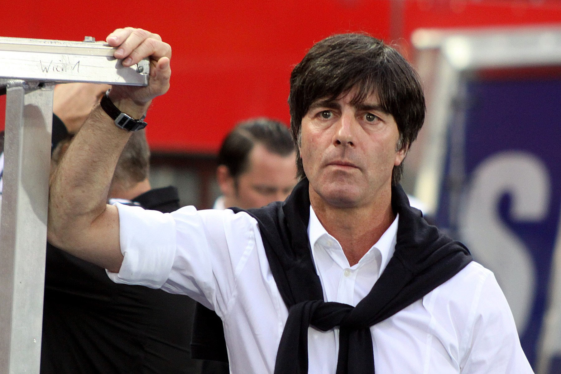 Joachim Löw, head coach of the german national football team - OpenStreetMap(Info)